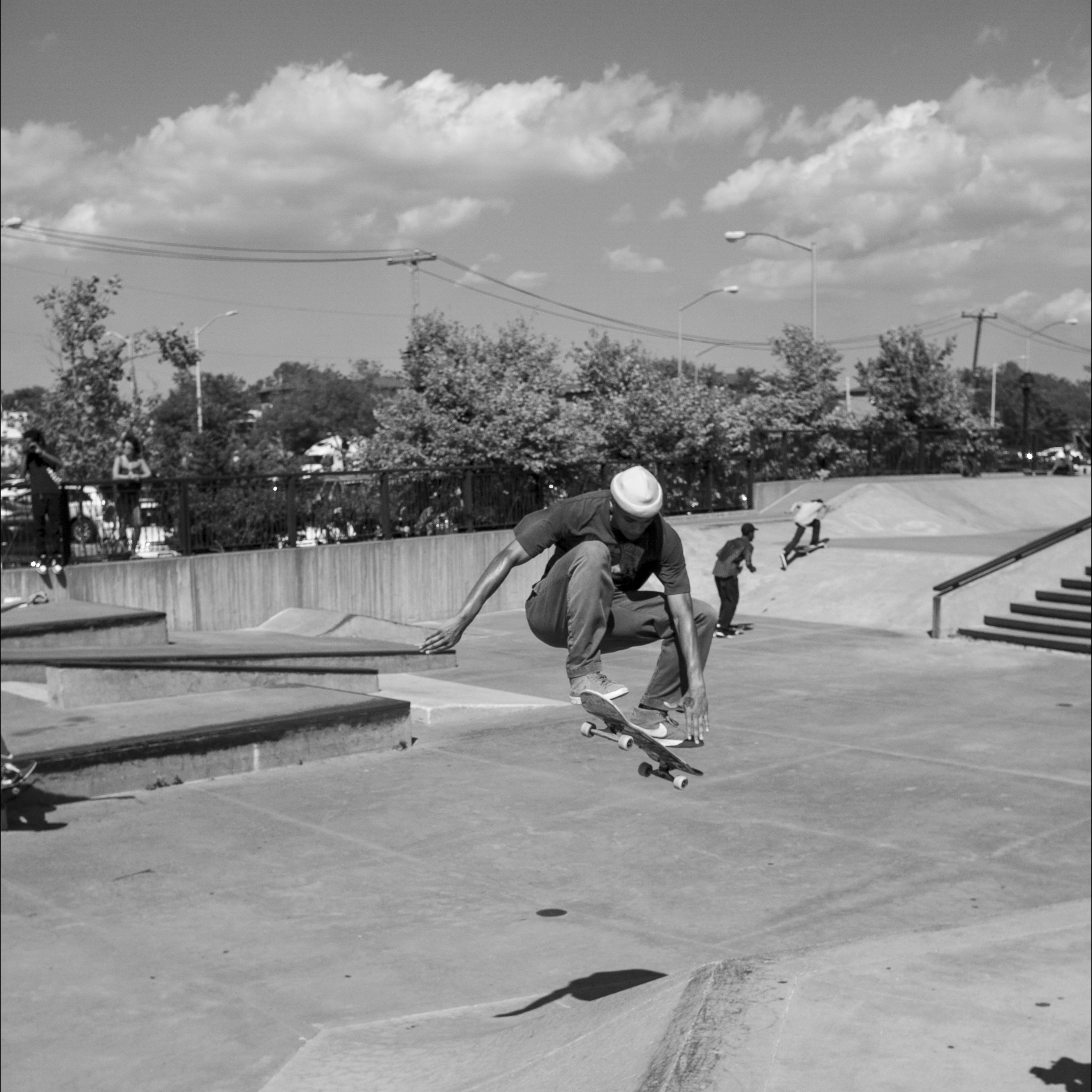 Black and white of an air in front of the clouds - Battle of the Beach 2 - Far Rockaway Skatepark - September - 2019